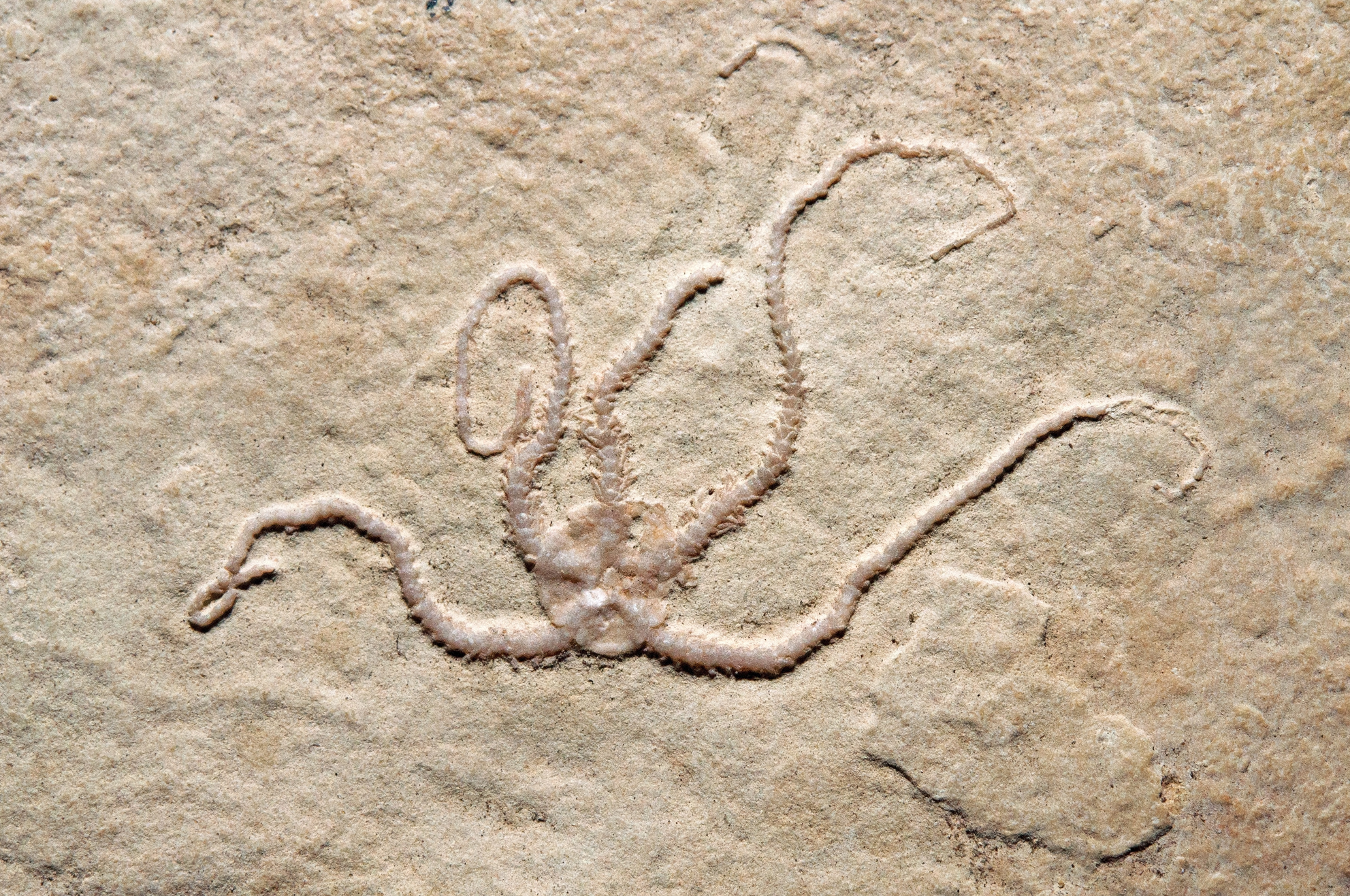 Sinosura kelheimense (Boehm, 1889) : Hœnheim (Hienheim), Alsace, Bas-Rhin, France - Tithonien, Jurassique Supérieur (≈ 150,8 MA ± ≈ 4,0 MA)